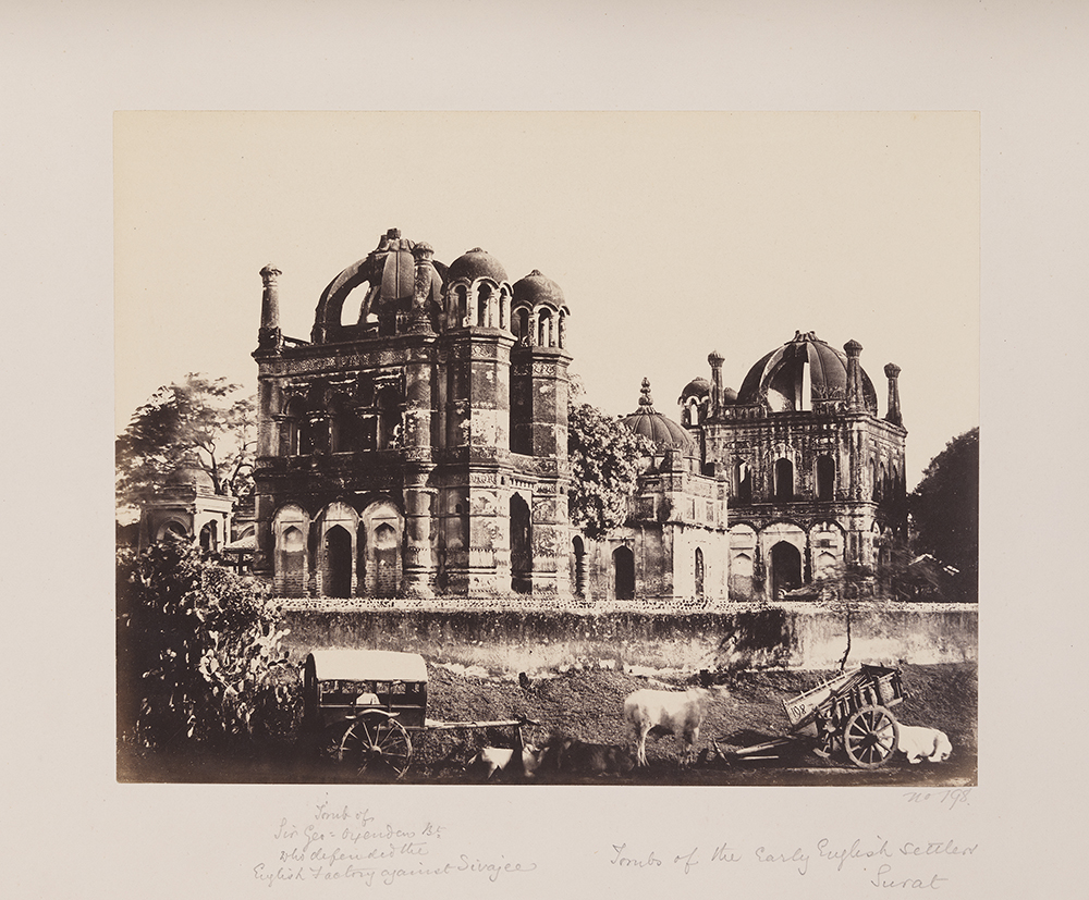 Title: Tombs of the Early English Settlers, Surat Creator: H. D. Rae [attributed] Date: ca. 1855-1862 Series: Photographs of Western India. Volume III. Scenery, Public Buildings, &c. Part of: Photographs of Western India Place: Surat, Gujarat, India Description: The tombs pictured in this photograph are located in the English Cemetery at Surat. Christopher Oxenden and his brother, Sir George Oxenden, first governor of Bombay, are buried in one of the tombs. Another is believed to be that of Gerald Aungier, third governor of Bombay and president of the English factory at Surat. Source: Rana, Jay B., History of Surat, Surat Tourism, Physical Description: 1 photographic print: albumen; 20 x 26 cm on 35 x 42 cm mount File: vault_ag2002_1407x_3_198_tomb_opt.jpg Rights: Please cite Southern Methodist University, Central University Libraries, DeGolyer Library when using this image file. A high-quality version of this file may be obtained for a fee by contacting . For more information and to view the image in high resolution, see: View Europe, India, and Asia: Photographs, Manuscripts, and Imprints